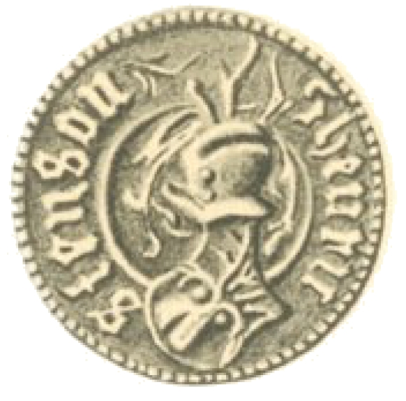 The seal of Henrik Stensson (d. 1522).